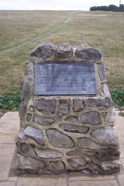 Great Lines and Dedication plaque This large open ground lies between Gillingham and Chatham. This dedication plaque is on a path between Sally Port Gardens and Marlborough Road. The dedication plaque reads 'The Great Lines, which lie before you is the area of land reserved since the 18th Century as the line of fire of the Cannon defending Chatham Naval Dockyard. In 1989, the land was acquired by Gillingham Borough Council for the future amenity and enjoyment of local people. Unveiled 15th March 1989.' Plans are underway to turn this land into a Country Park. Chatham Naval War Memorial is seen in the background.